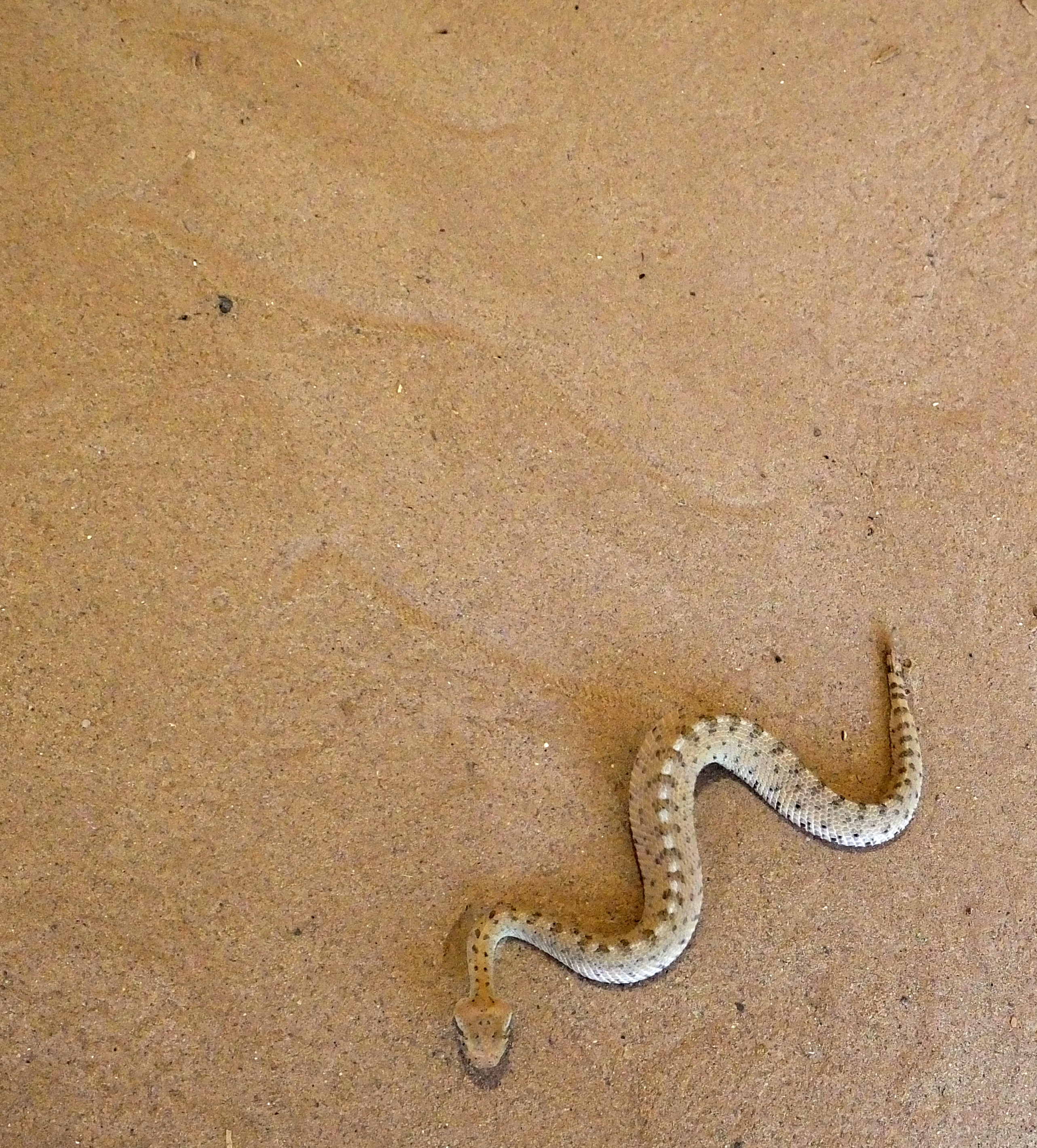 A neonate Colorado desert sidewinder (Crotalus cerastes laterorepens) sidewinds across sand. Taken at Zoo Atlanta.